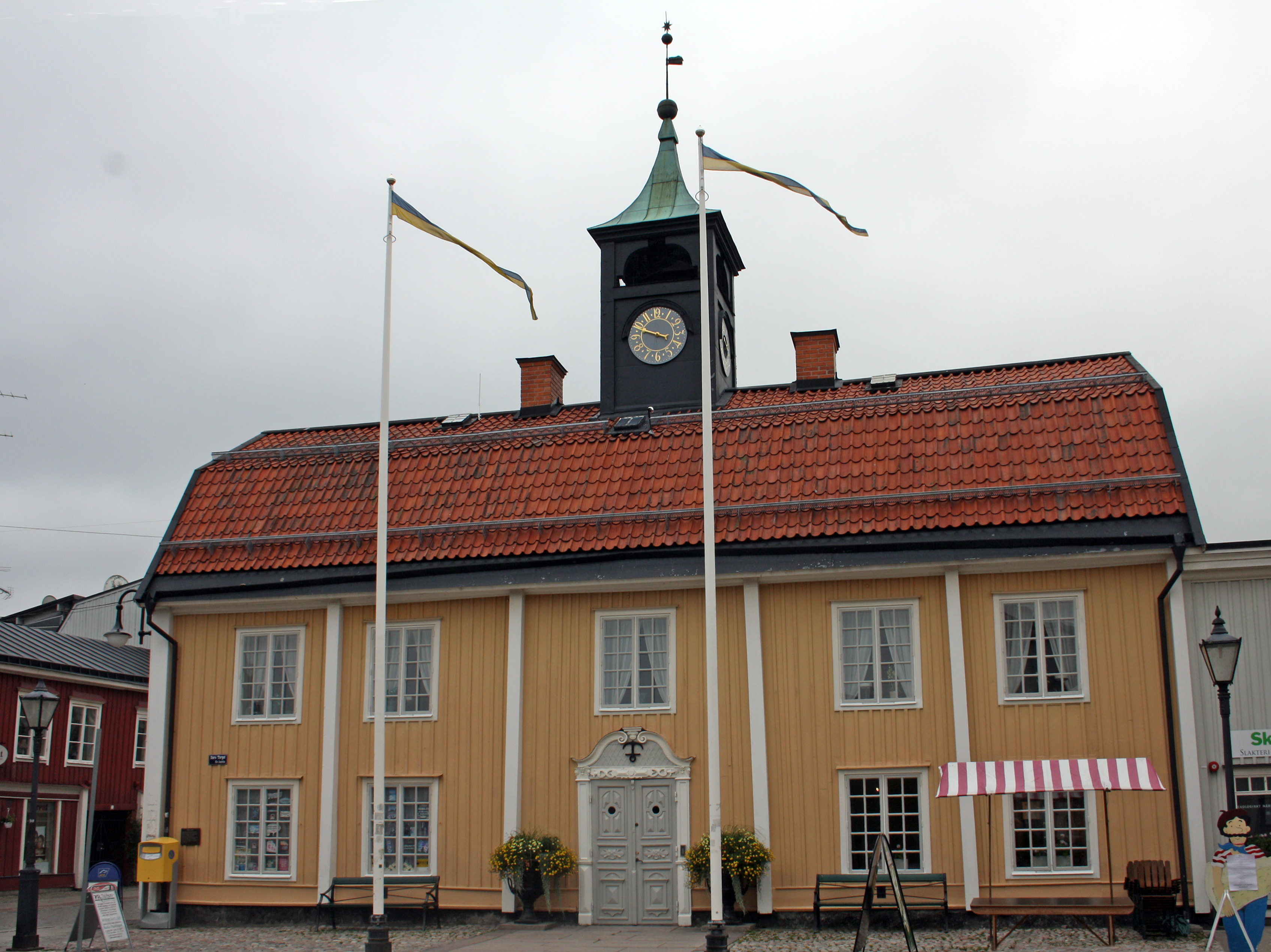 The town hall in Norrtälje, Stockholm County